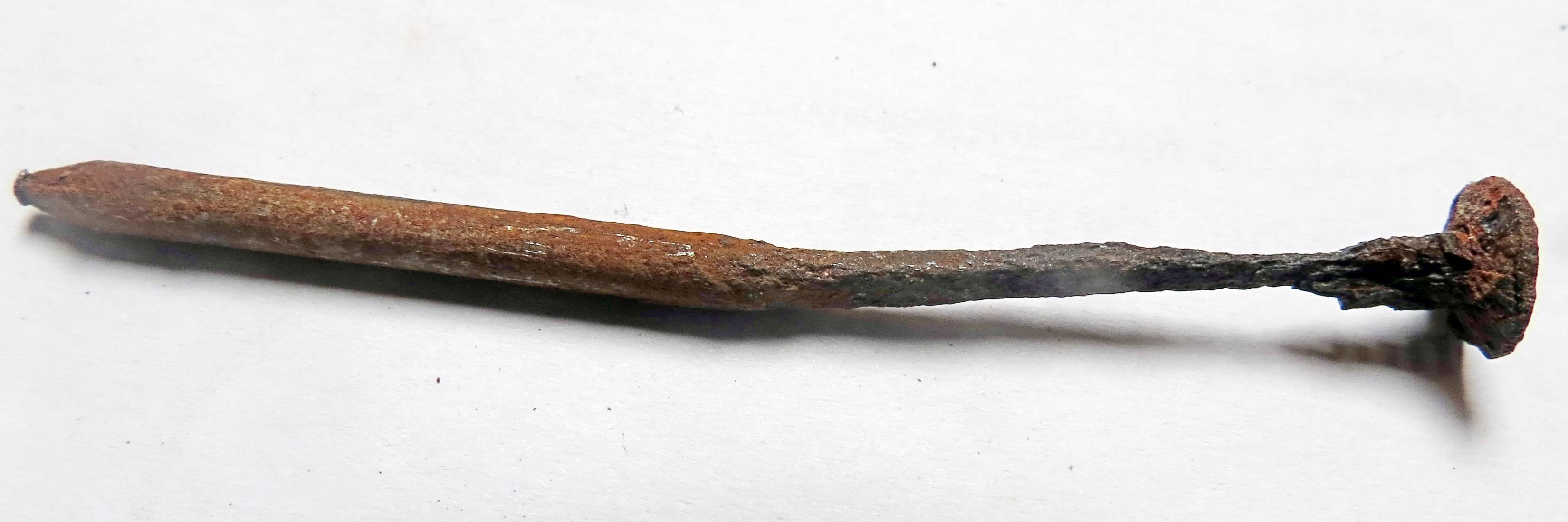 Atmospheric corrosion of a nail (length 60 mm, original diameter 3 mm), after ~20 years of exposure to damp atmosphere in a roof. Note the difference between the head zone and that of the tip, the latter being in a less aggressive environnement and thus having undergone little degradation.